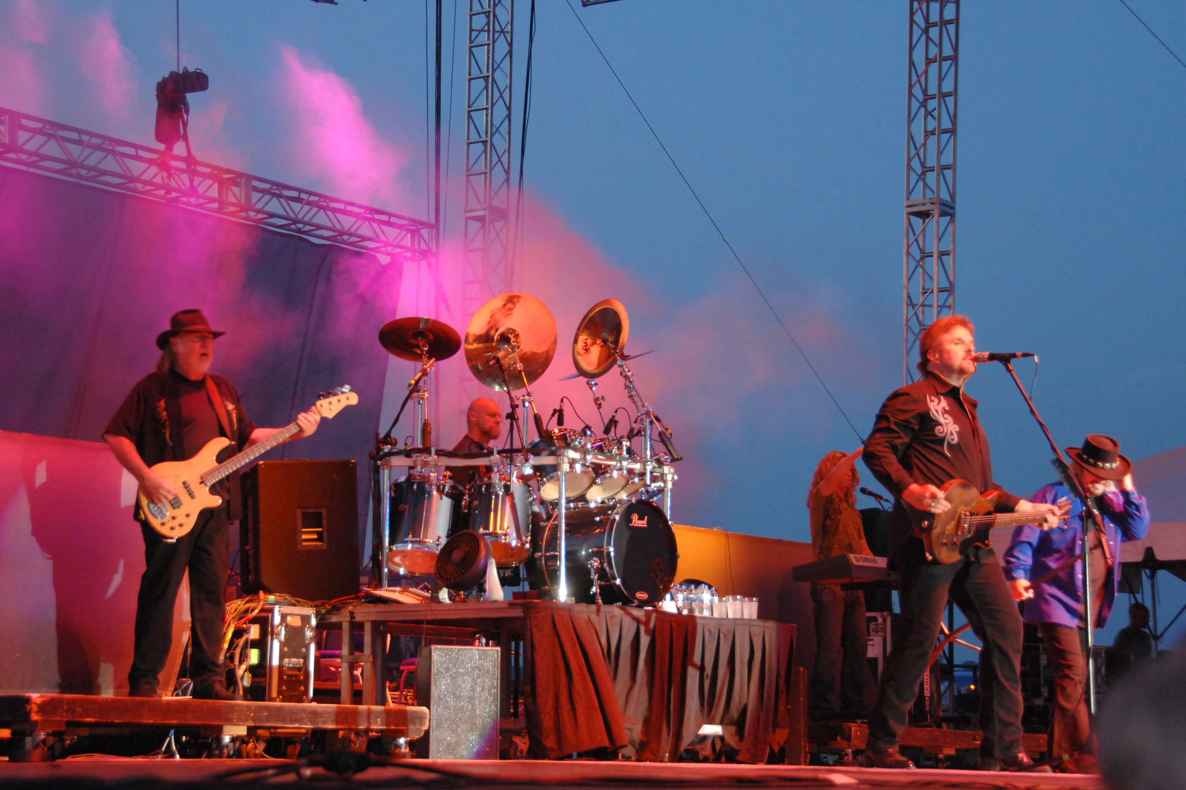 Southern and arena rock band .38 Special performs during the sixth annual Air Force Materiel Command Freedom's Call Tattoo June 25, 2010, at Wright-Patterson Air Force Base, Ohio. The free public event honored Korean War veterans and featured military ceremonies, aircraft flyovers, music and evening fireworks.